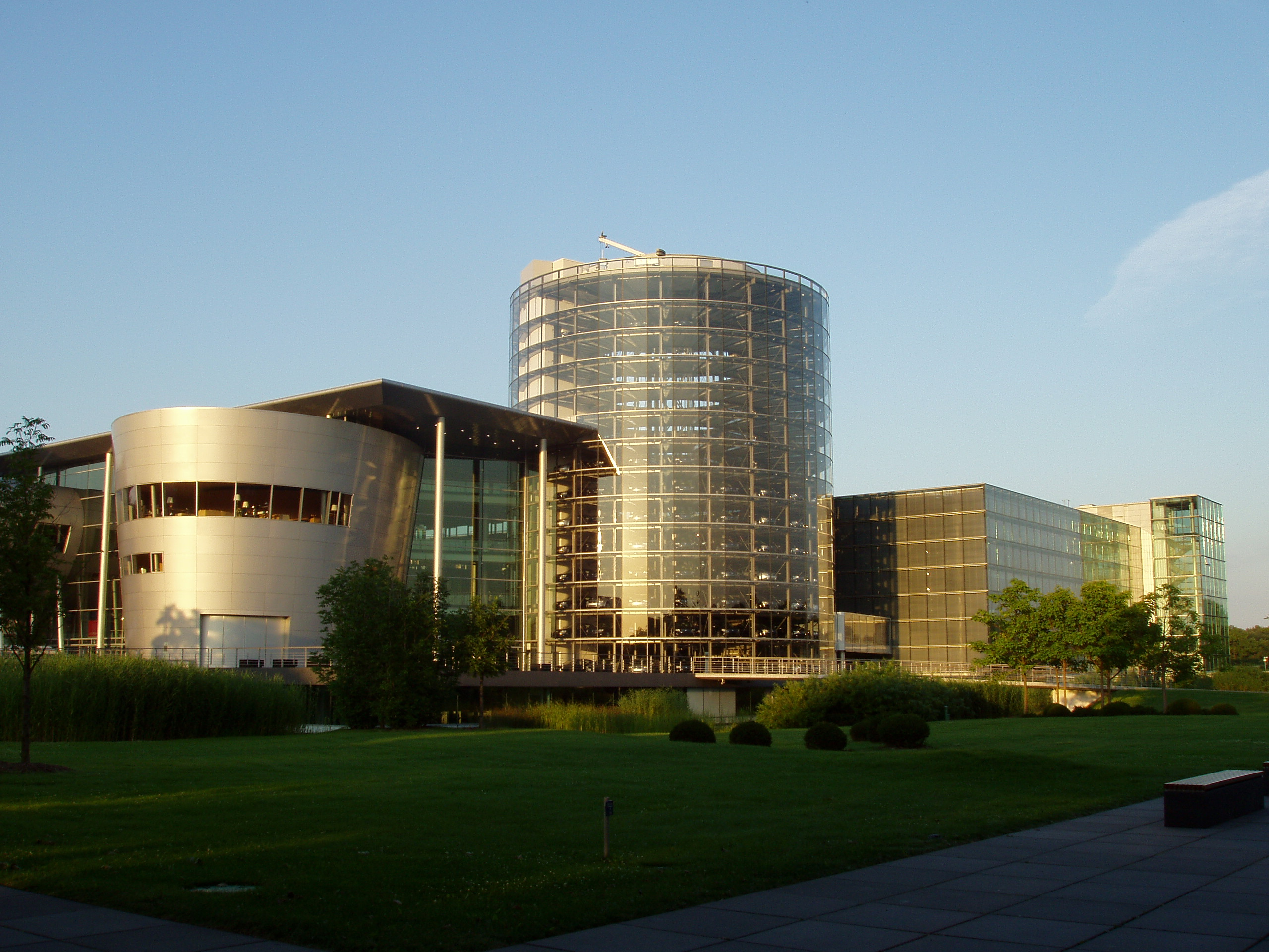 Glass manufacture an automobile production plant owned by German carmaker Volkswagen in Dresden (July 2005, with Olympus C-50 Zomm)